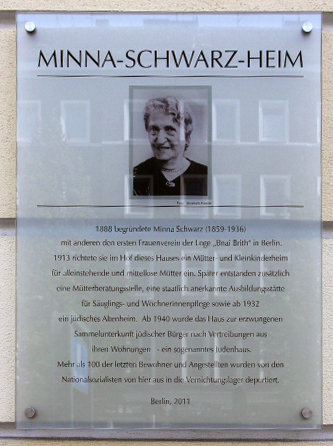 Memorial plaque, Minna Schwarz-Heim, Brunnenstraße 41, Berlin-Mitte, Germany